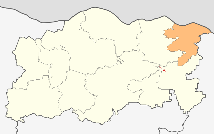 Map of Belene municipality, Pleven Province